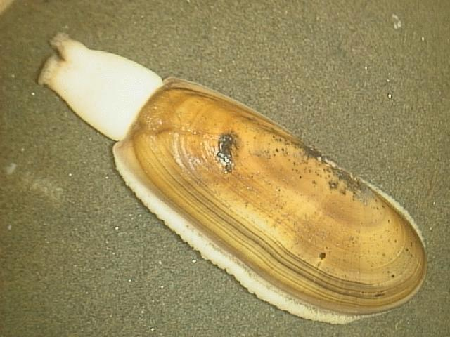 Taken In Westport, WA.